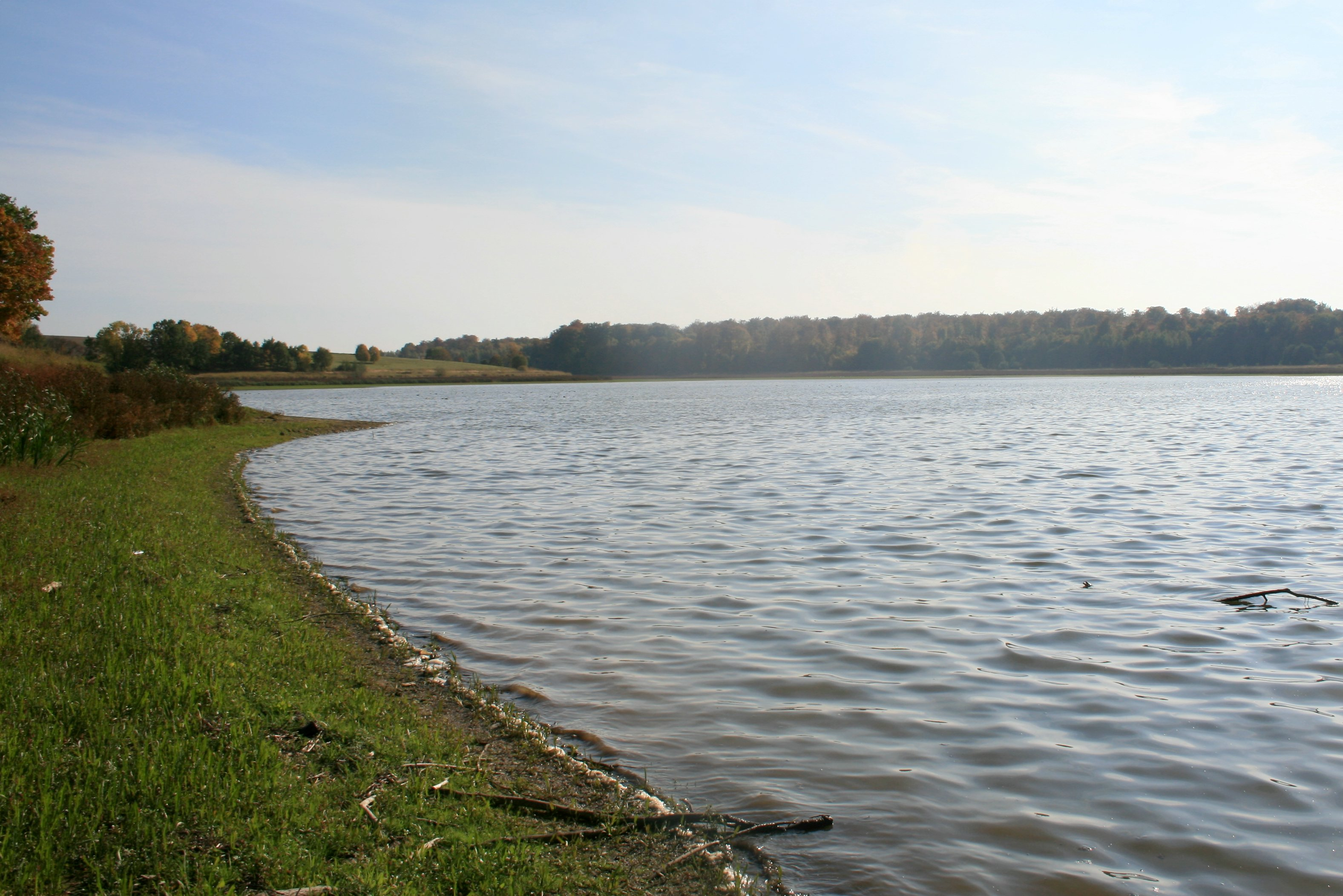 Schömbach dam